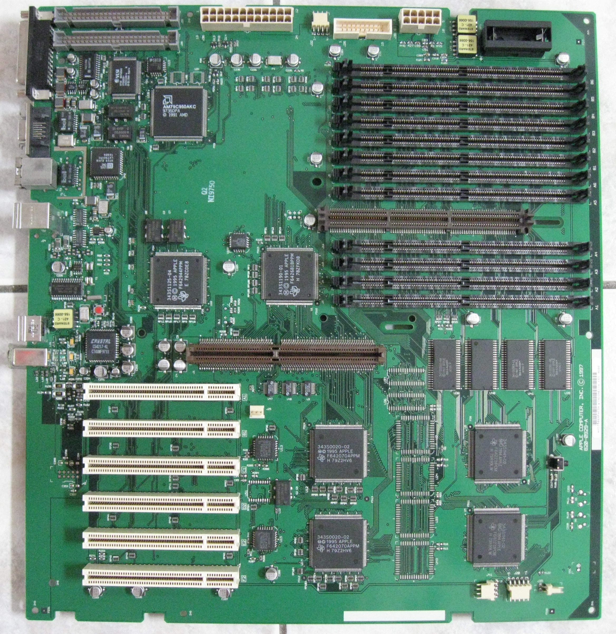 Power Macintosh 9600 system board Printed number on board: 820-0865-A Apple part number: 661-1221 Slots and sockets on the board: top left (grey) 2x SCSI (50 pin); next to right (white) power supply; next to right (white) CD audio; next to right (white) floppy drive; next to right (white) 3.3V power supply; top right (black) battery; next to down (black) 8x memory slots (168-pin DIMM for FPM/EDO DRAM); next to down (brown) ROM SIMM (unused); next to down (black) 4x memory slots (168-pin DIMM for FPM/EDO DRAM); next to left and down (brown) CPU slot; bottom left (white) 6x PCI slots (32-bit).